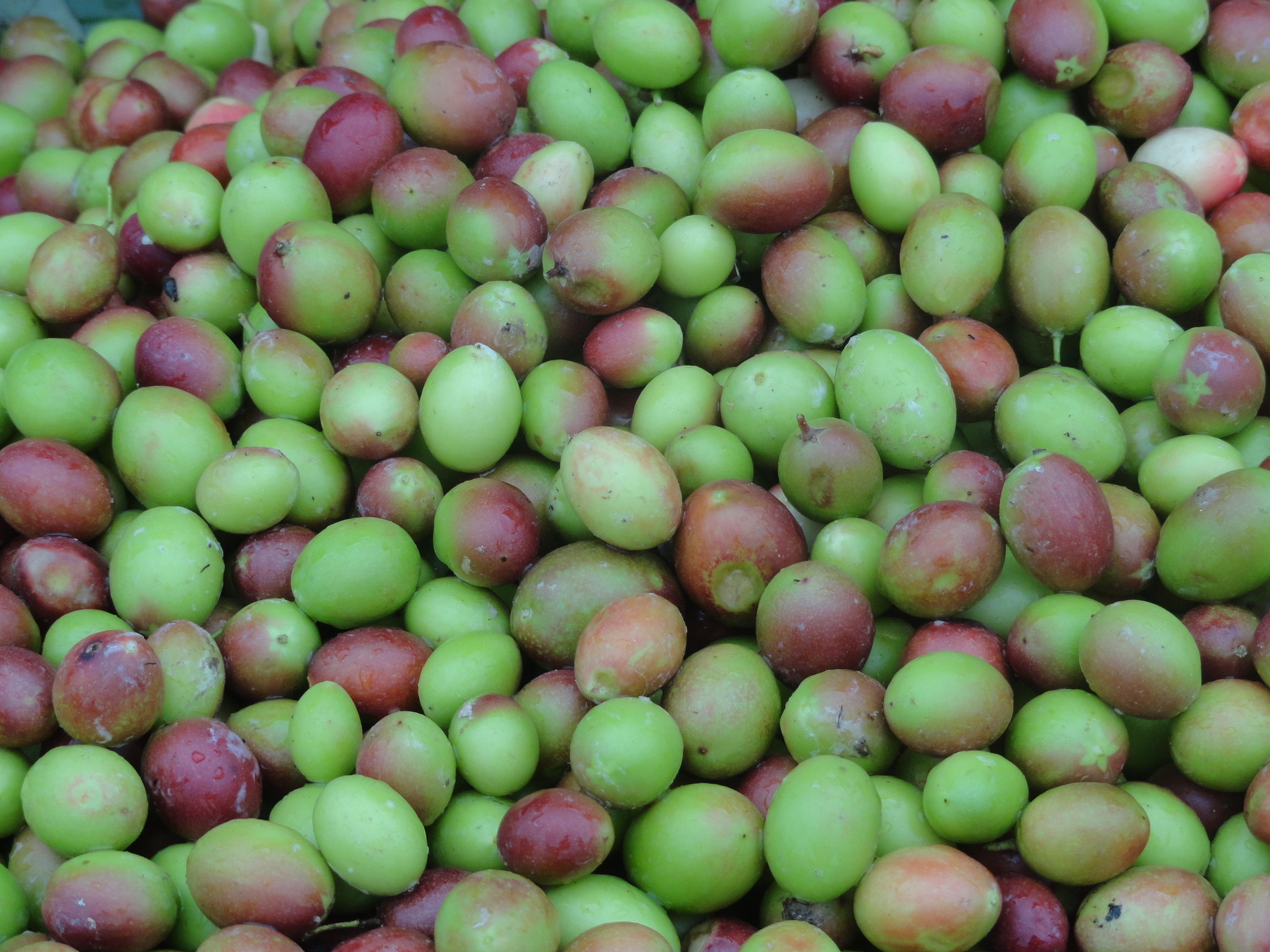 కలింకాయలు.